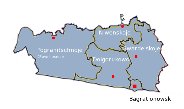 The administrational division of the Bagrationovsky District in German transcription